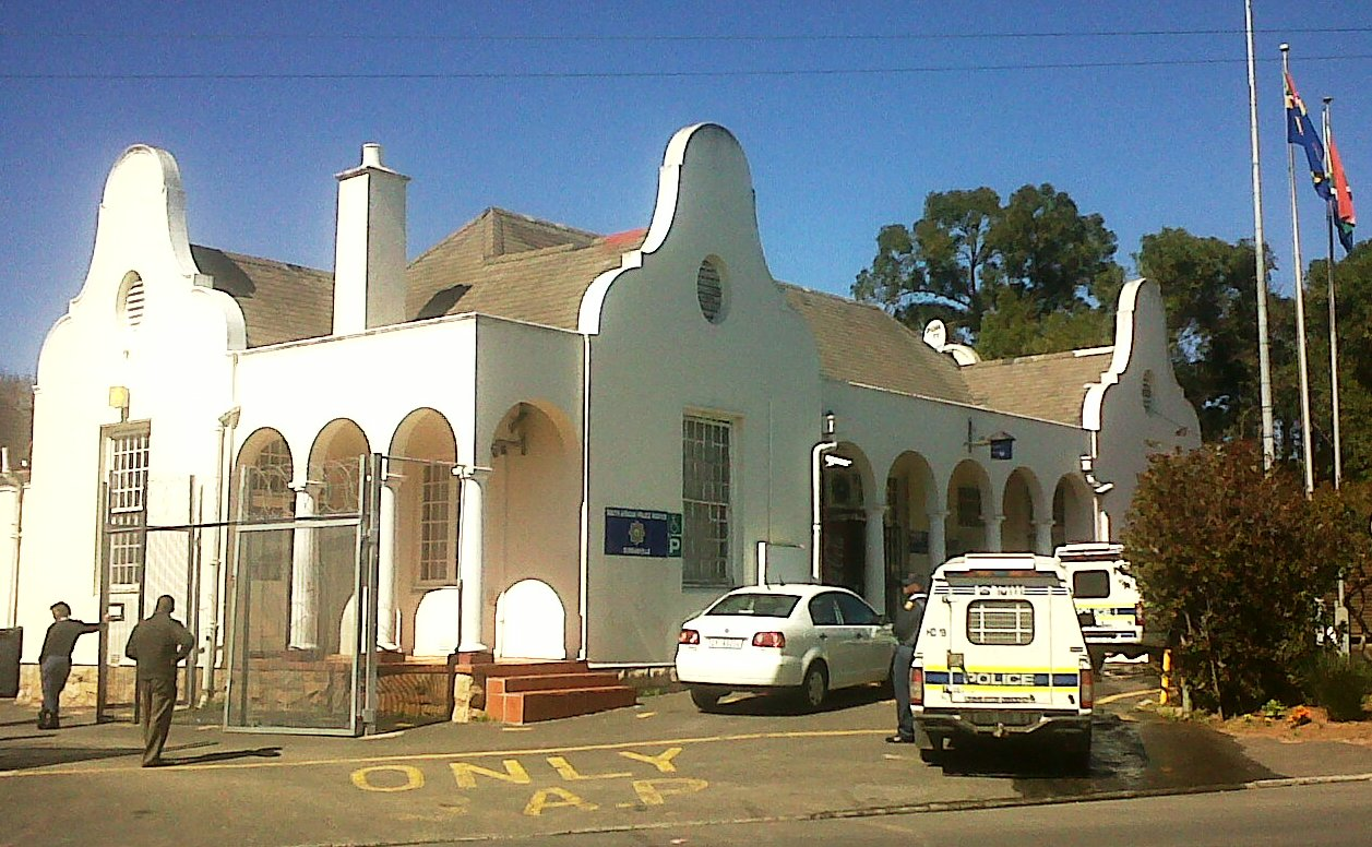 The police station was built in 1919 and is typical of the Cape Dutch revival architecture of its period. A single-story, U-shaped building with wings and tall Flemish gables and arched verandahs between the wings. Also present are the classic Byzantine pillars and arches. The building has large sashes with small panes and round vents and louvres. There are a number of good quality six-panel double doors and a distinctive tall chimney. This media shows a South African Protected Site with SAHRA file reference 9/2/012/0019.